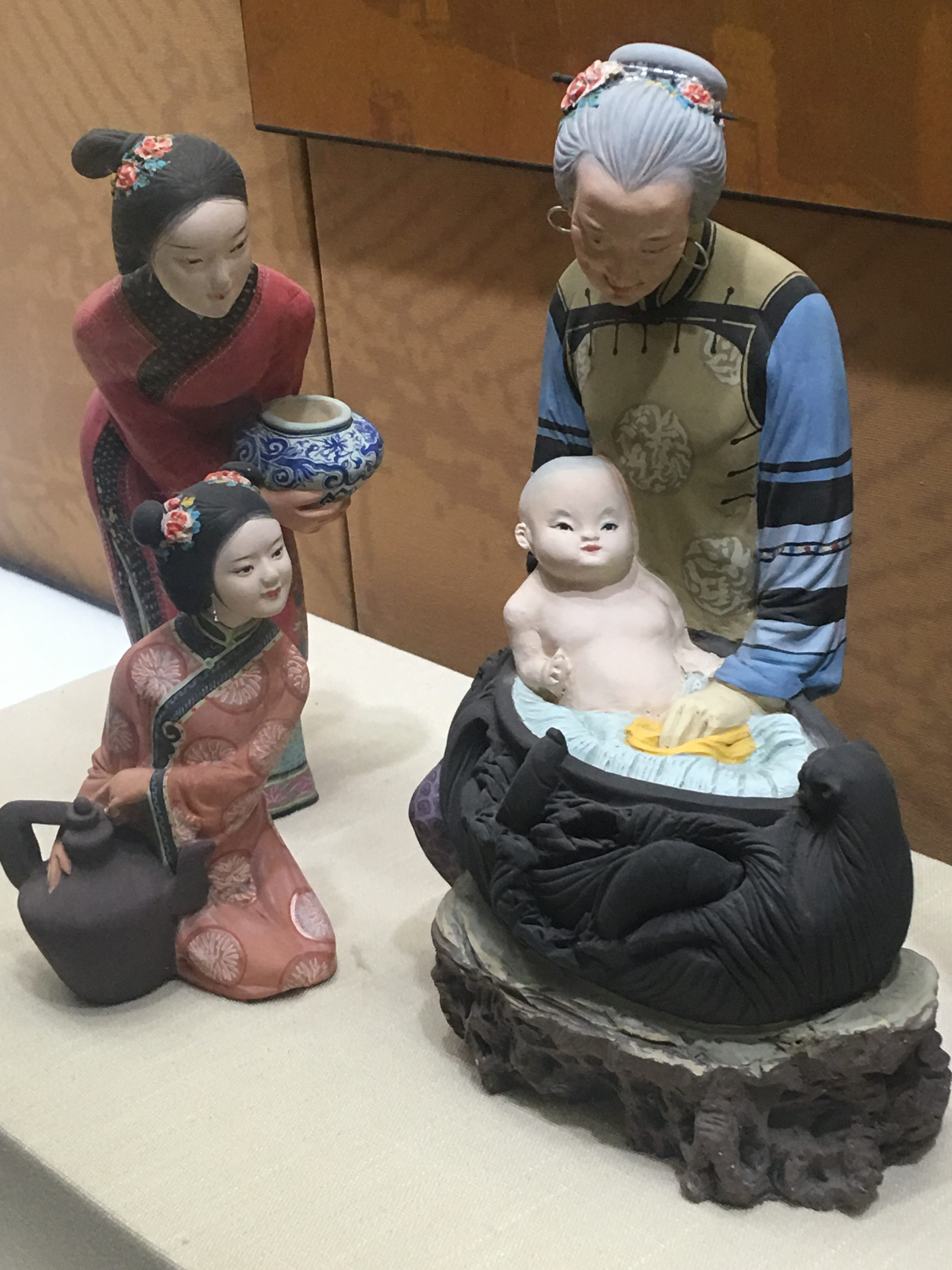 Figurine of the Emperor Qianlong (born 1711) at three years old, having a bath. Event must have happened around 1714. Exhibit in the Yonghe Temple, his former Palace home.